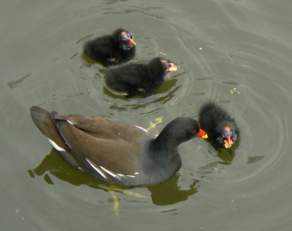 Common Moorhen (Gallinula chloropus) with three chicks on water in Regents Park, London, England.